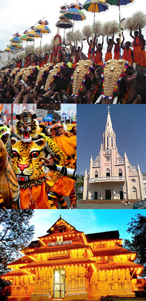 Thrissur montage